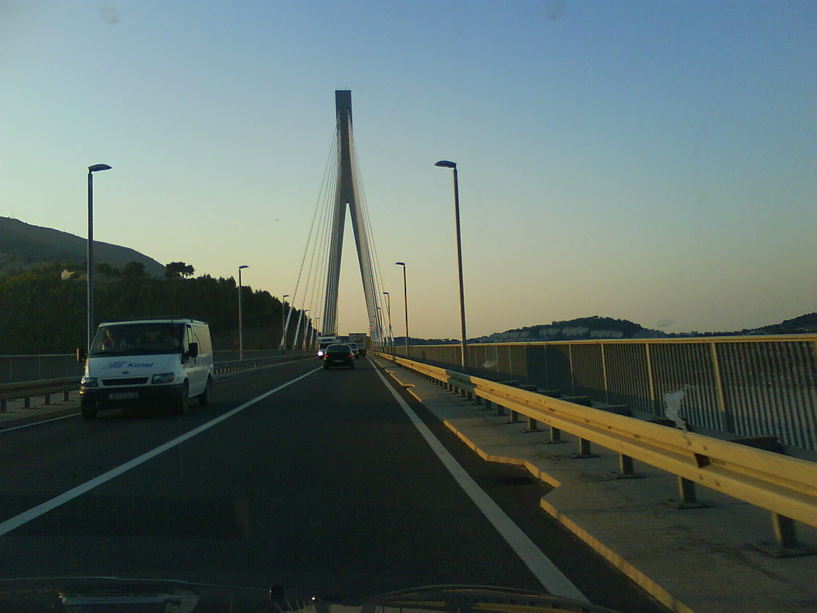 Tuđman-bridge Dubrovnik